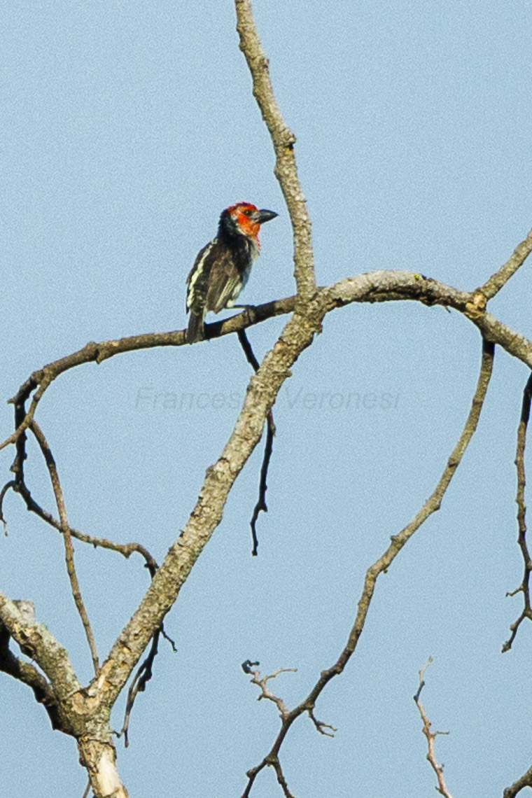 A Vieillot's Barbet, also Viellot's Barbet (Lybius vieilloti rubescens) in the area of the Shai Hills (near of the lower Volta, Eastern Region, Ghana)